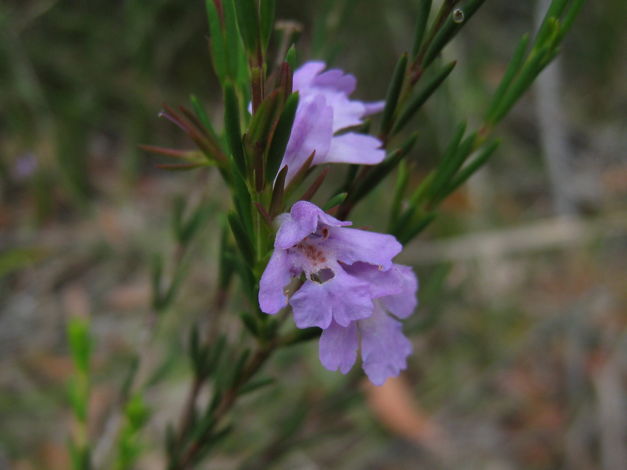 Hemigenia purpurea. Royal National Park, NSW Australia, December 2010.